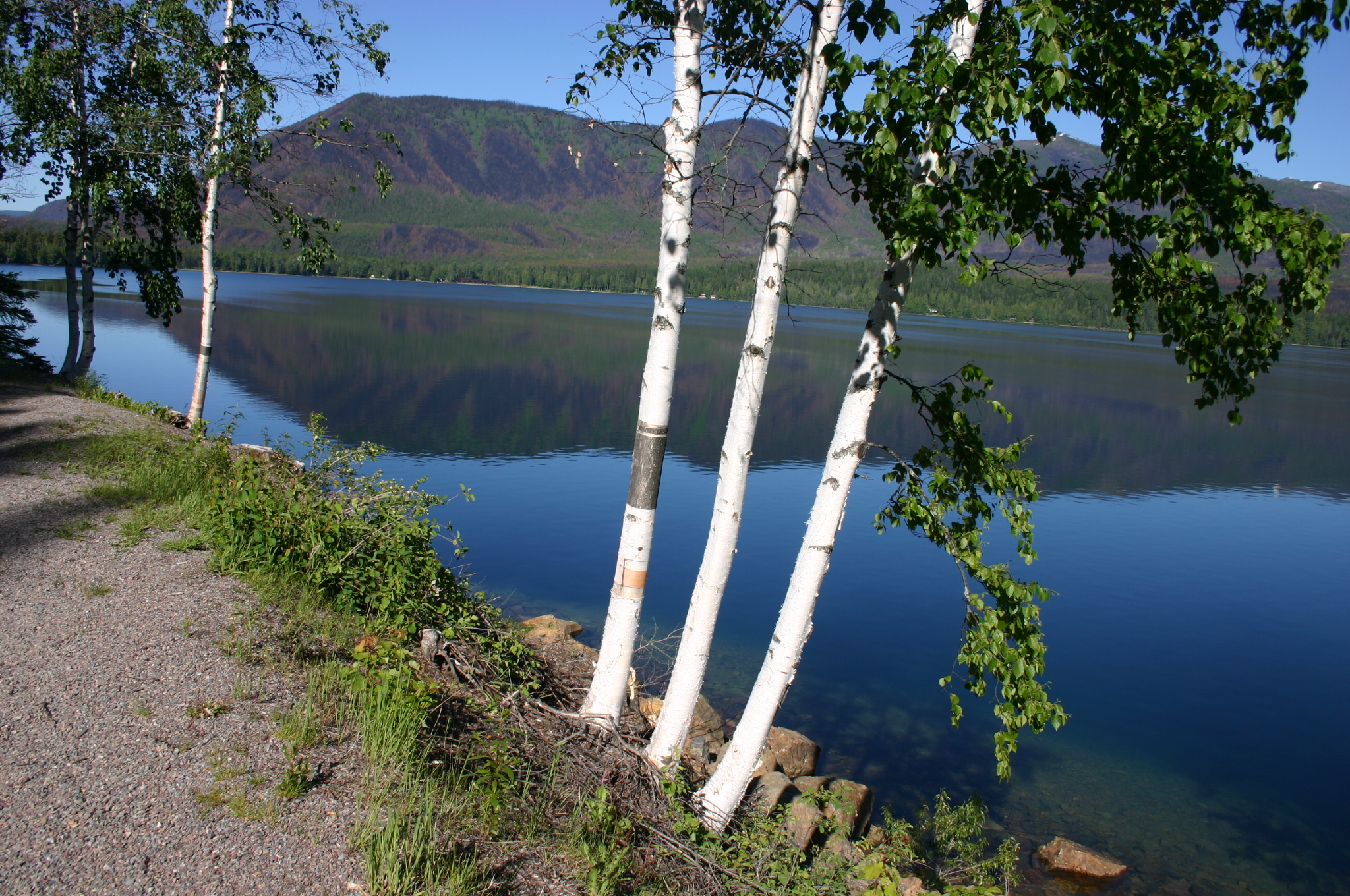 Three Paper Birch Betula papyrifera trees with white bark. Taken at McDonald Lake, Going-to-the-Sun Road, Glacier National Park, Montana, USA